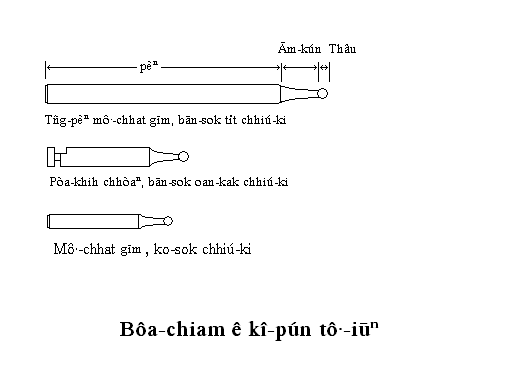 Basic designs of burs; Bôa-chiam ê ki-pún tô·-iū